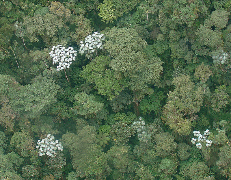 White-topped leaves of Cecropia telenitida, Condor range, Peru/Ecuador border area